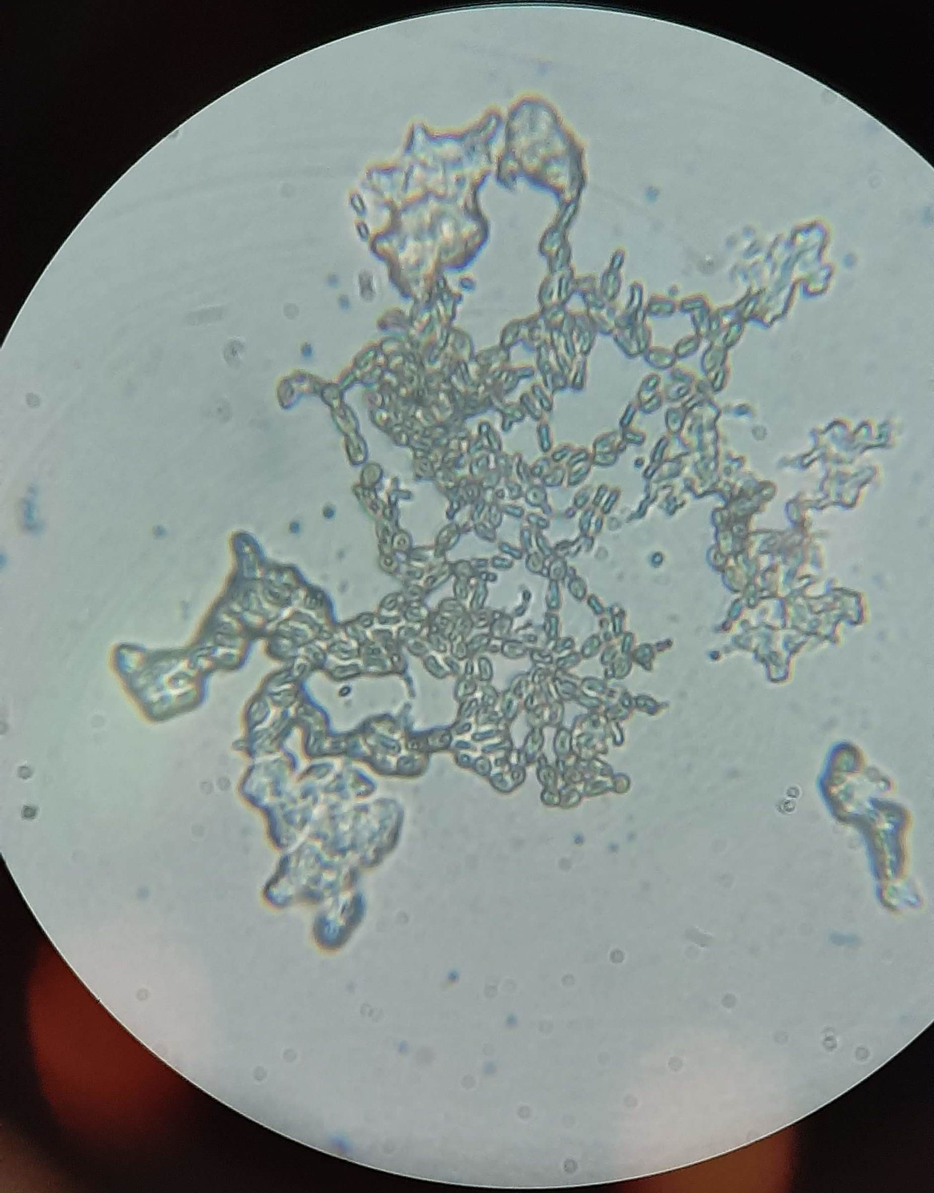 The KEFIR it is a drink rich in lactic ferments obtained from the fermentation of milk